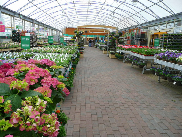 Dobbies' covered plant area Located to the rear of the building.